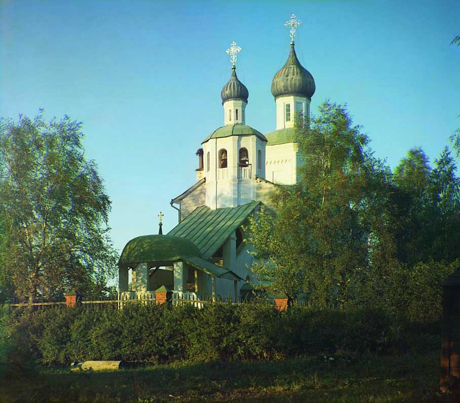 Borodino church. Hole in the dome. Borodino, 1911, S. M. Prokudin-Gorskii.